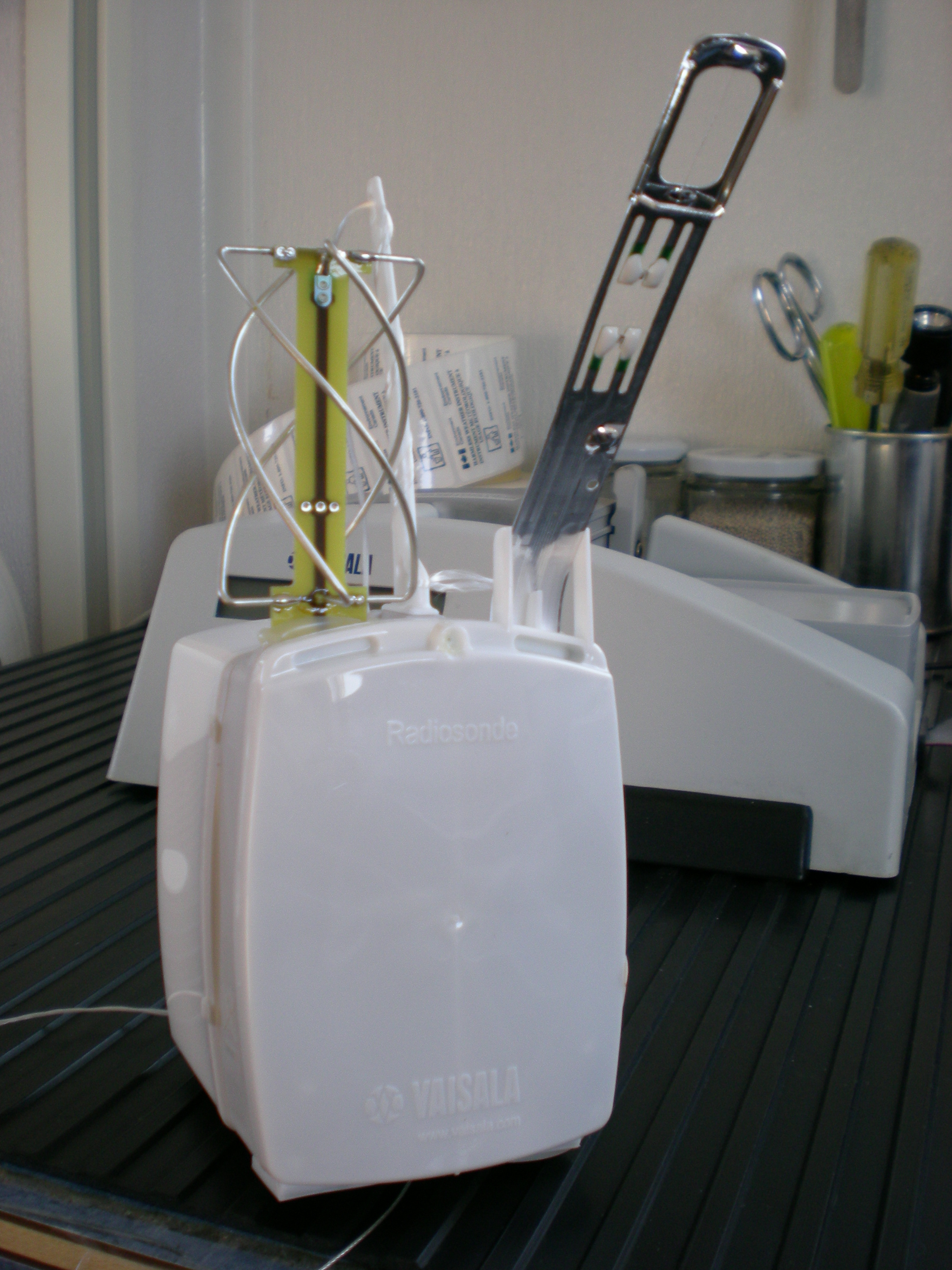 A GPS sonde ready for flight.